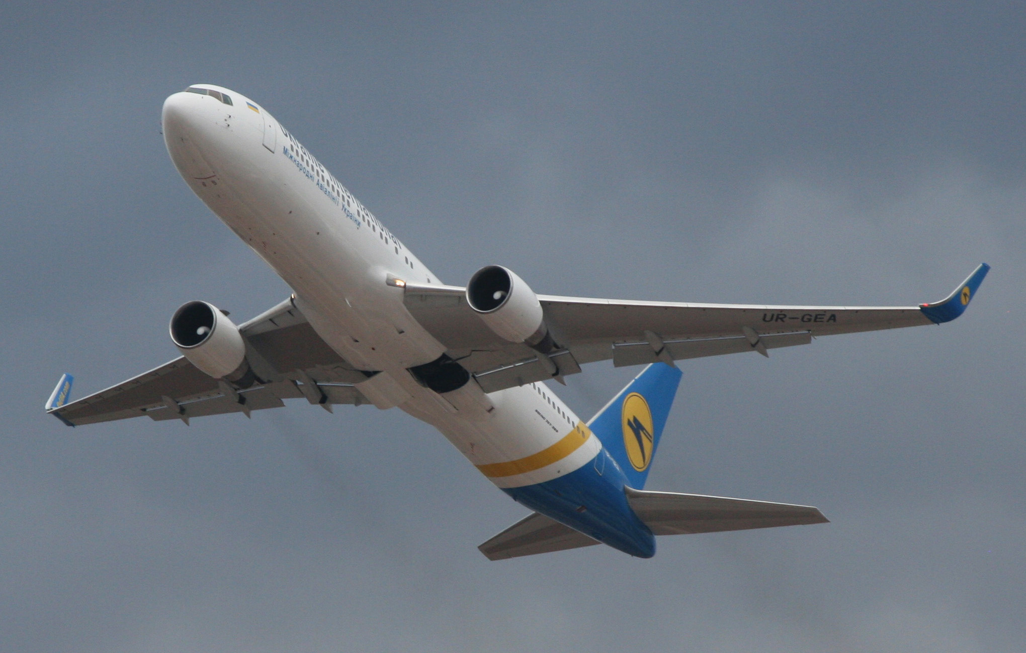 At Ben Gurion International Airport